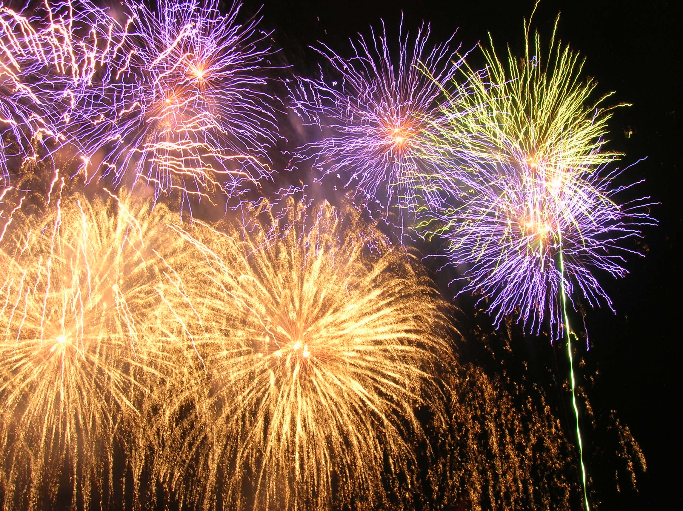 Firework of Lake of Annecy festival 2005